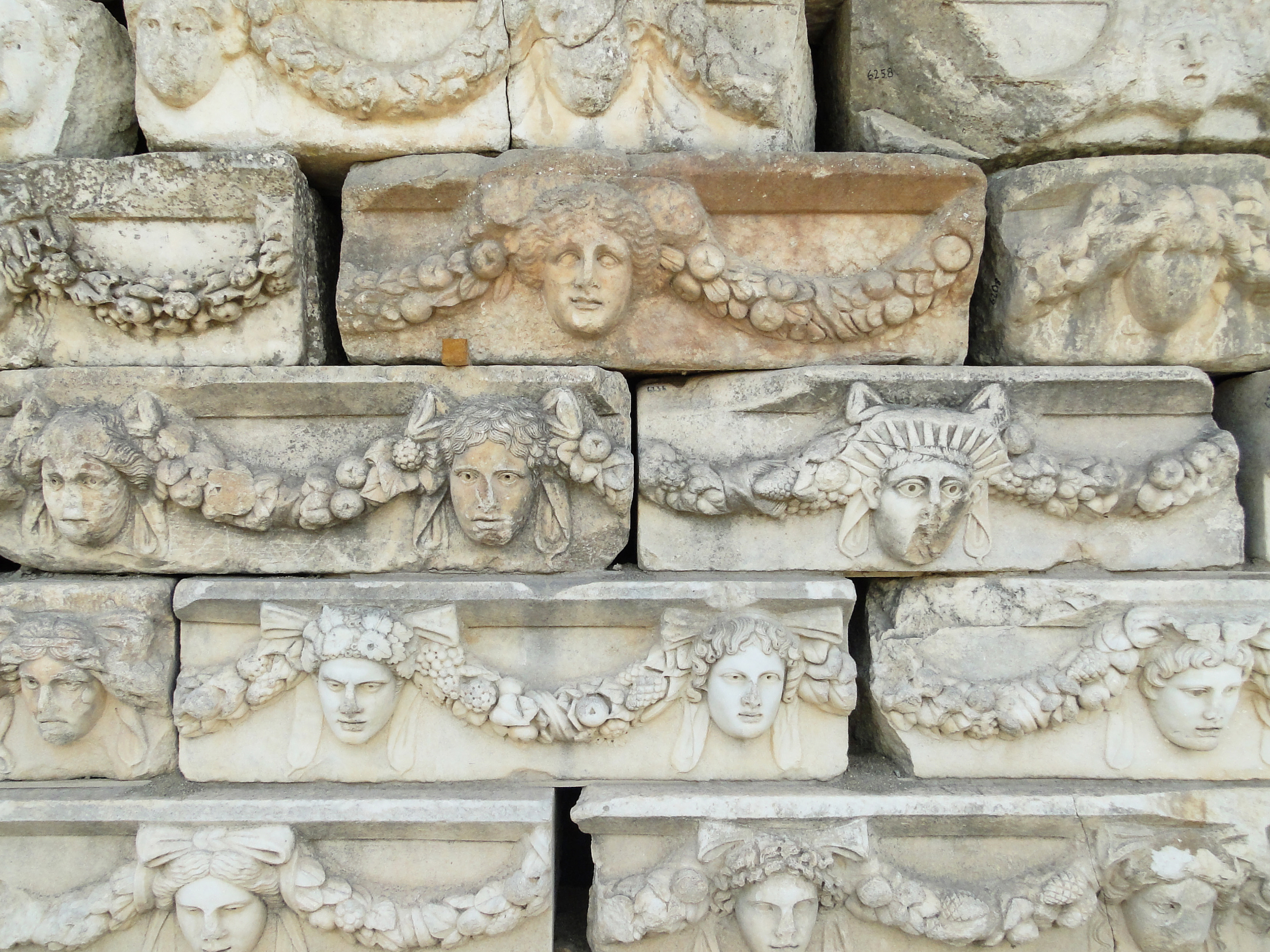 Detail of the frieze of the Portico of Tiberius, Aphrodisias, Turkey